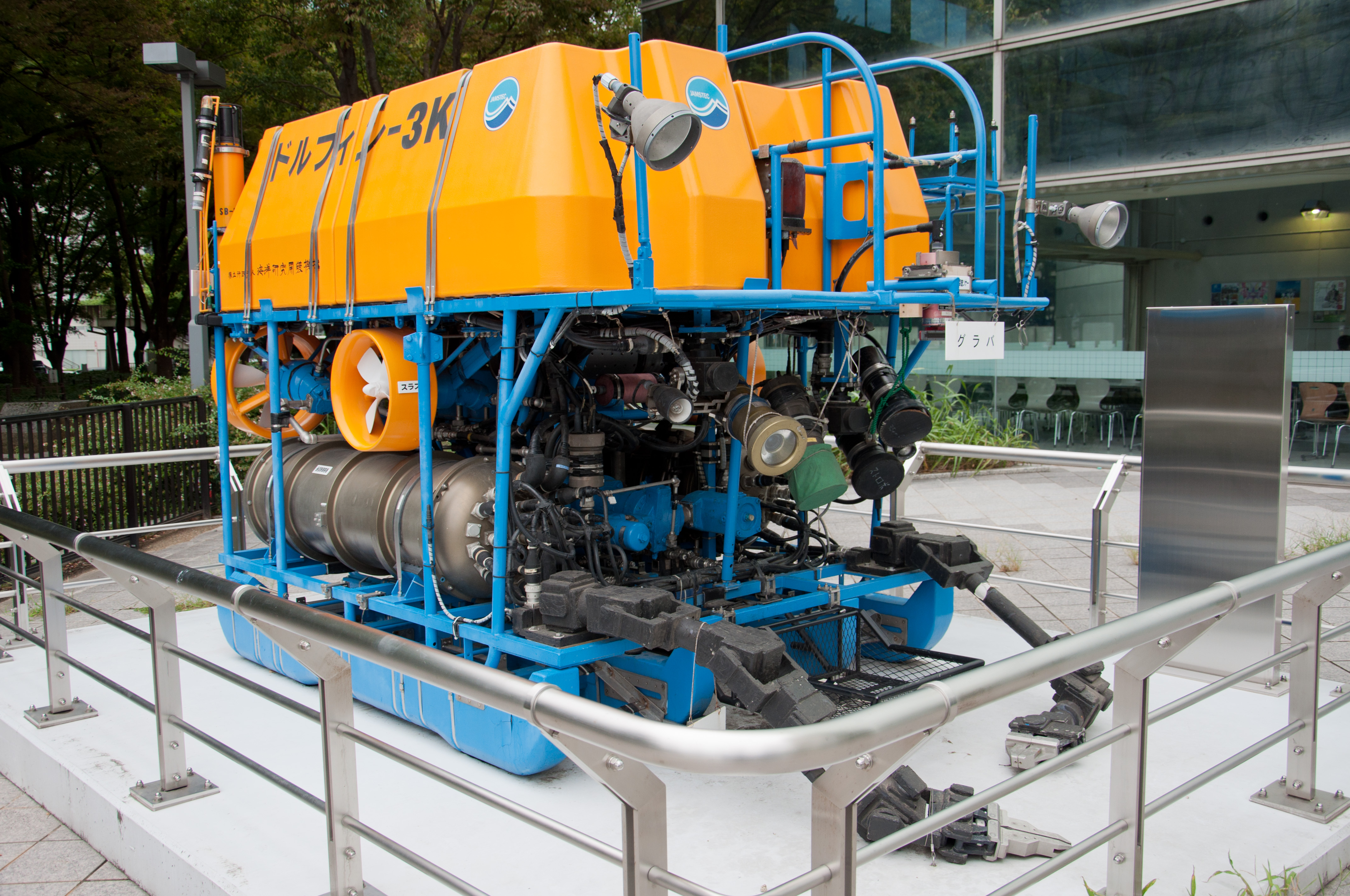 JAMSTEC DOLPHIN-3K ROV.